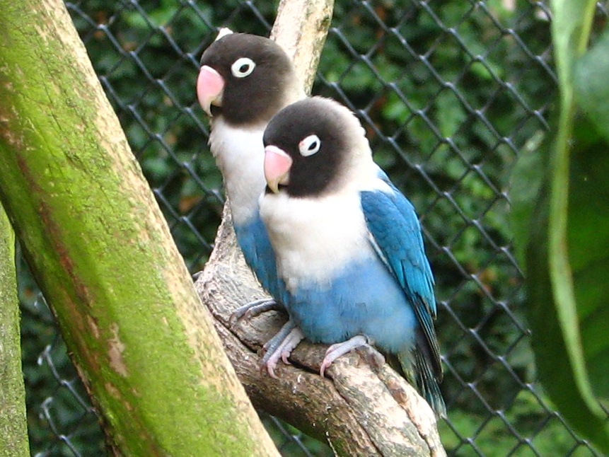 The blue colour mutant of the Masked Lovebird, at Častolovice Castle, Czech Republic.